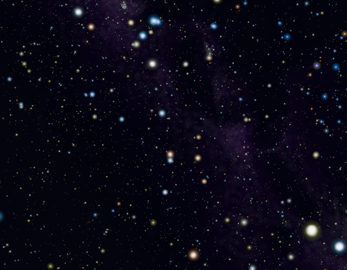 Image of Ara